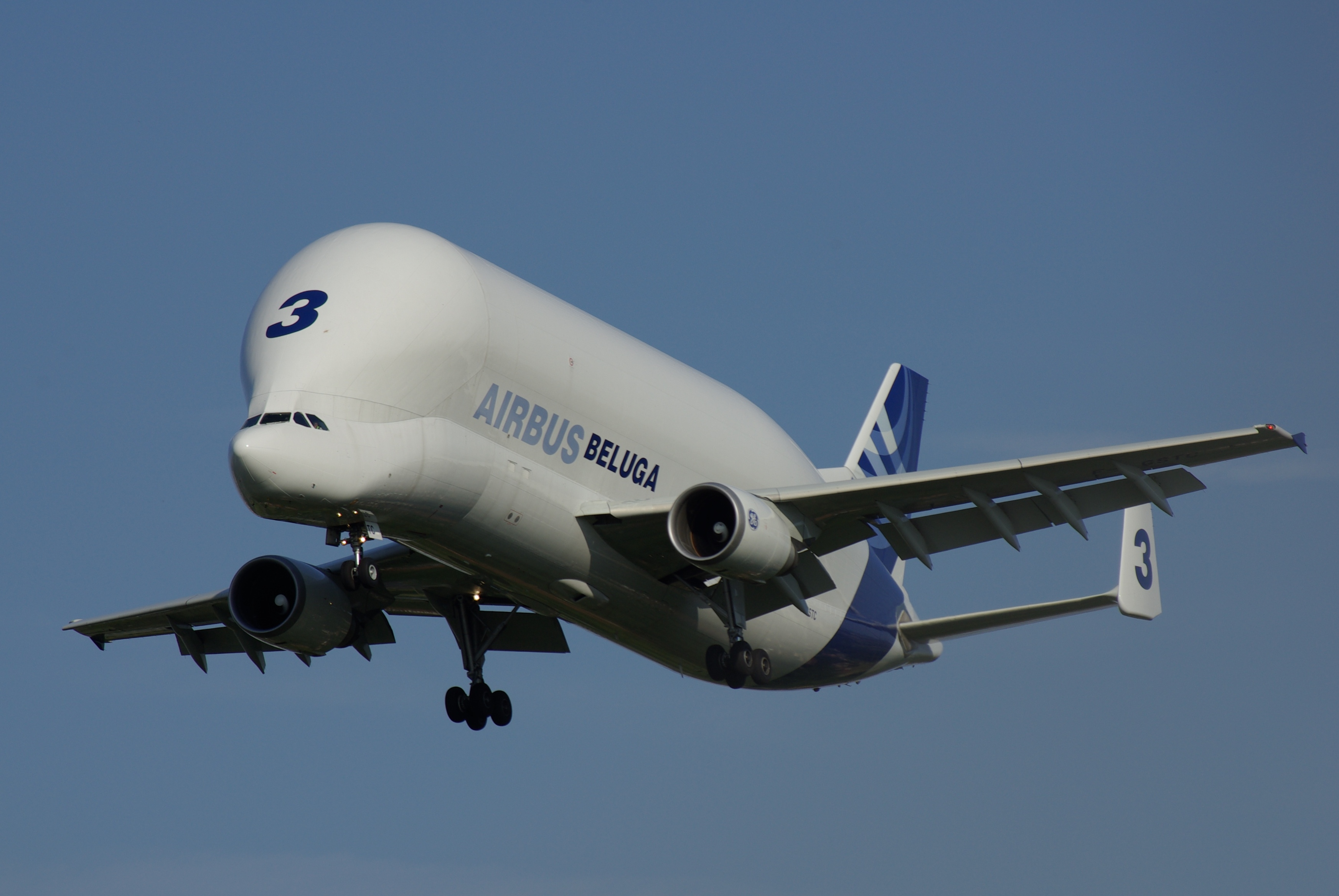 Beluga N°3 with the new Airbus colours landing at Toulouse